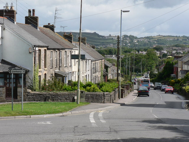 A4222 through Brynsadler, Rhondda Cynon Taff, Wales